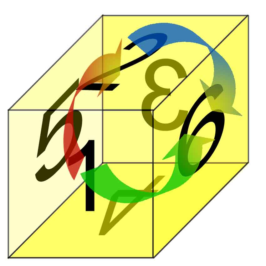 It isn’t clear what the arrows mean. If rotations about the orthogonal axes, as in File:Rotations du cube.jpg, then their arrangement is outright mistaken. Possibly, the red arrow is a rotation about the spatial diagonal?